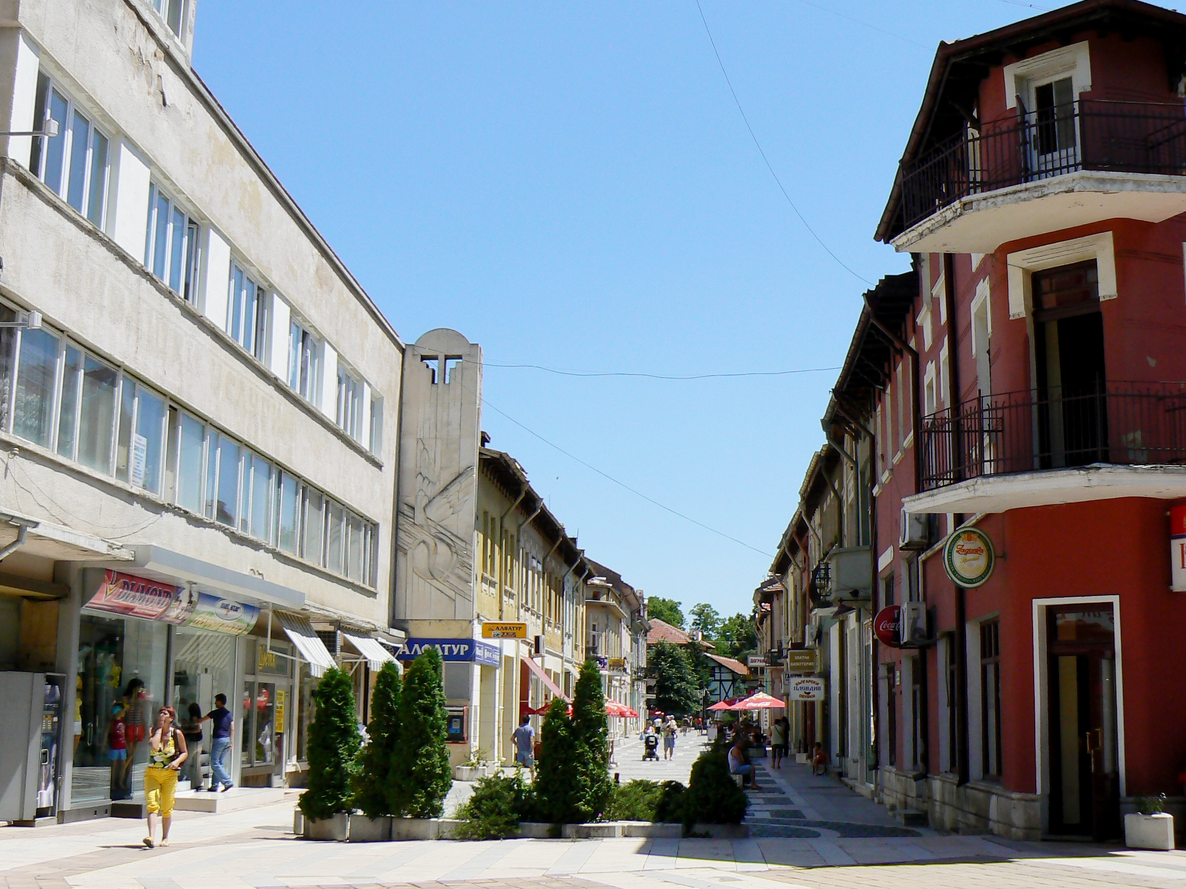 The shopping street in the centre of Vratsa, Bulgaria